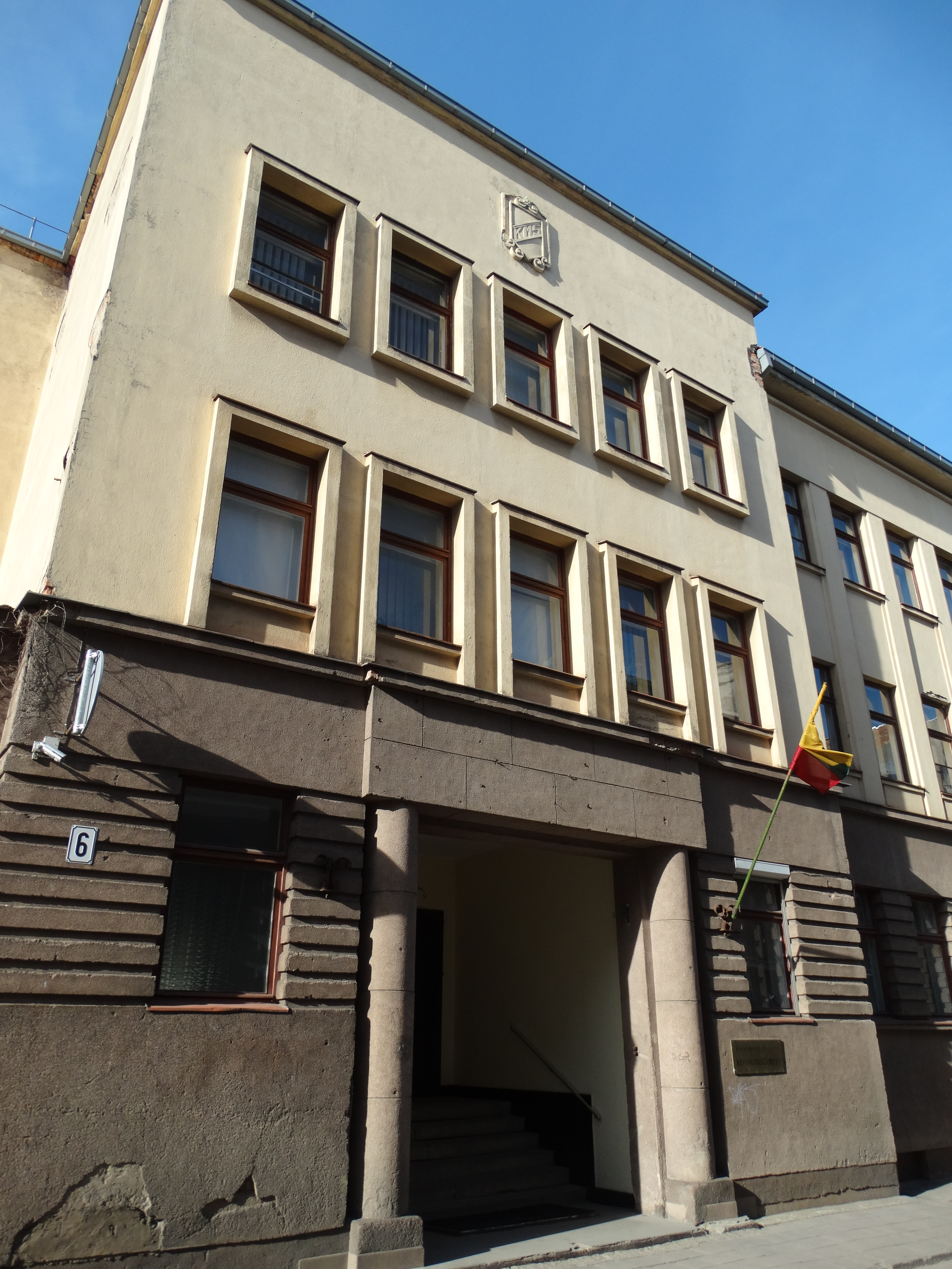 Juozas Gruodis Conservatory, Kaunas, Lithuania